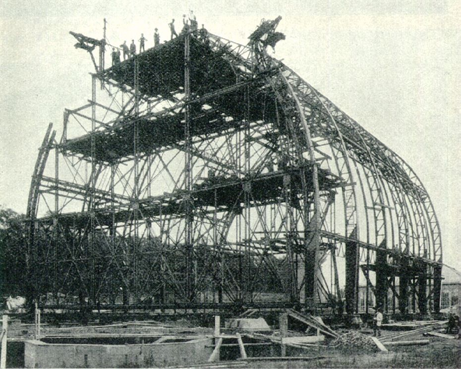 Botanic Garden and Botanical Museum Berlin-Dahlem Native nameBotanischer Garten, Berlin-DahlemParent institutionFree University of BerlinLocationBerlinCoordinates52° 27′ 18″ N, 13° 18′ 12.96″ E Established1899Web page control : Q163255 VIAF: 162893482 ISNI: 0000 0001 2149 4765 LCCN: n80146344 OSM: 3334555 GND: 2135864-3 WorldCat institution QS:P195,Q163255